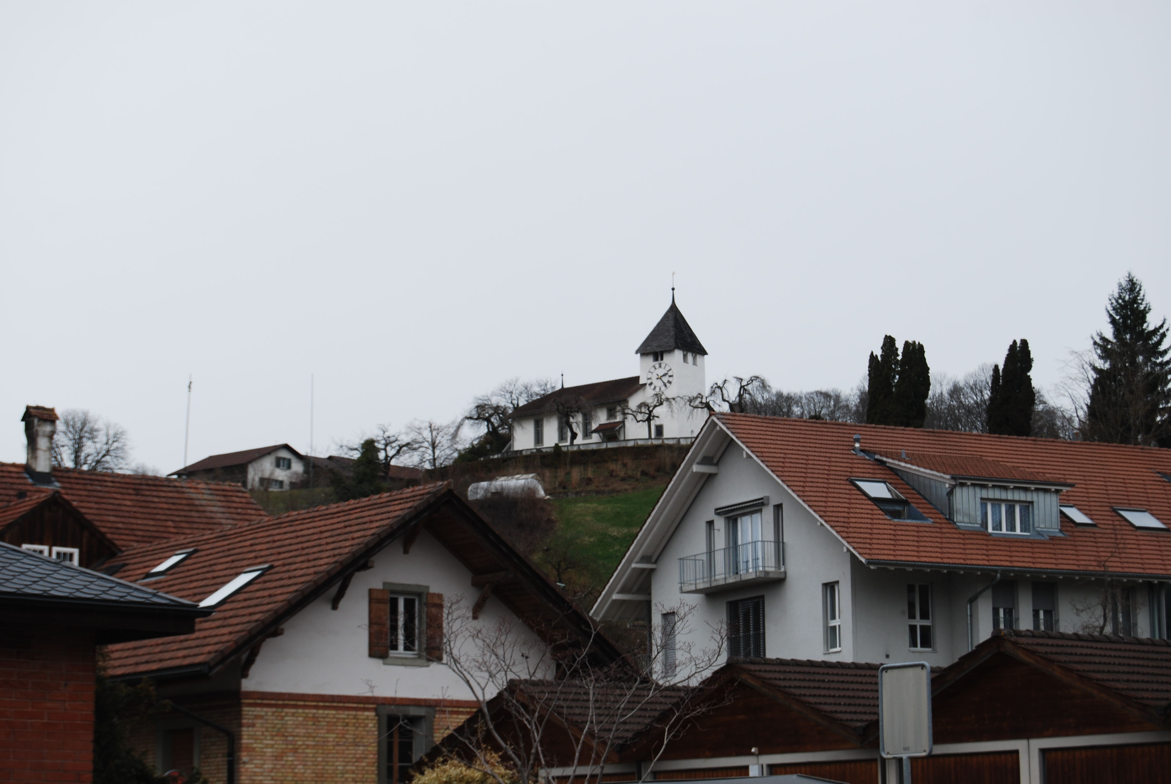 Protestant Church of Riggisberg, canton of Bern, Switzerland